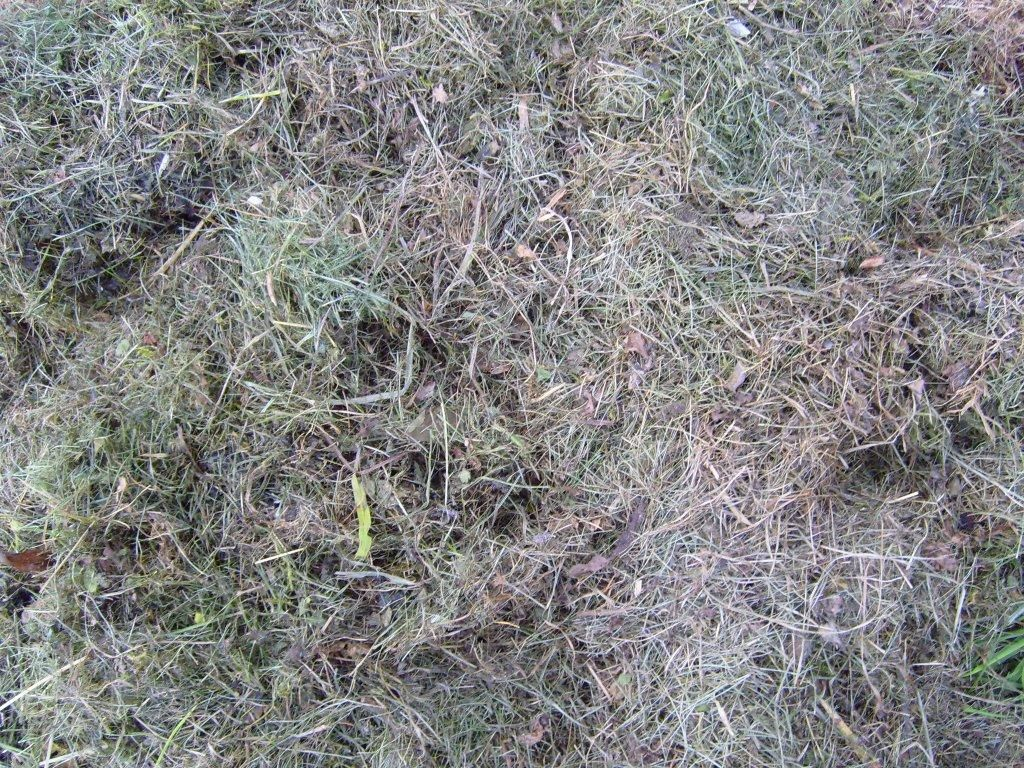 Image title: Old cutted grass Image from Public domain images website